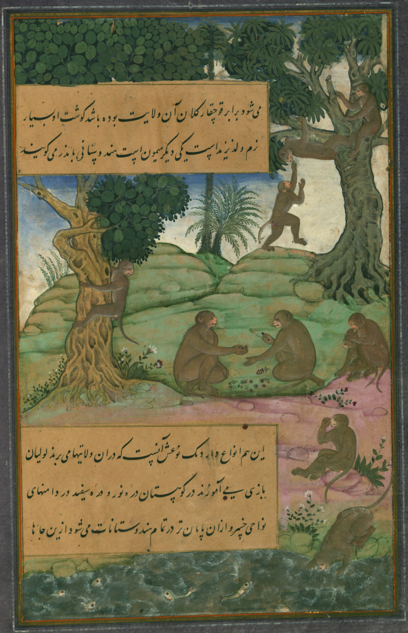 Illustrations from the Manuscript of Baburnama (Memoirs of Babur) - Late 16th Century Bāburnāma is the memoirs of Ẓahīr ud-Dīn Muḥammad Bābur (1483-1530), founder of the Mughal Empire and a great-great-great-grandson of Timur. It is an autobiographical work, originally written in the Chagatai language, known to Babur as "Turki" (meaning Turkic), the spoken language of the Andijan-Timurids. Because of Babur's cultural origin, his prose is highly Persianized in its sentence structure, morphology, and vocabulary,and also contains many phrases and smaller poems in Persian. During Emperor Akbar's reign, the work was completely translated to Persian by a Mughal courtier, Abdul Rahīm, in AH (Hijri) 998 (1589-90). These Paintings, being a fragment of a dispersed copy, was executed most probably in the late 10th AH /16th CE century. It contains 30 mostly full-page miniatures in fine Mughal style by at least two different artists. Another major fragment of this work (57 folios) is in the State Museum of Eastern Cultures, Moscow.